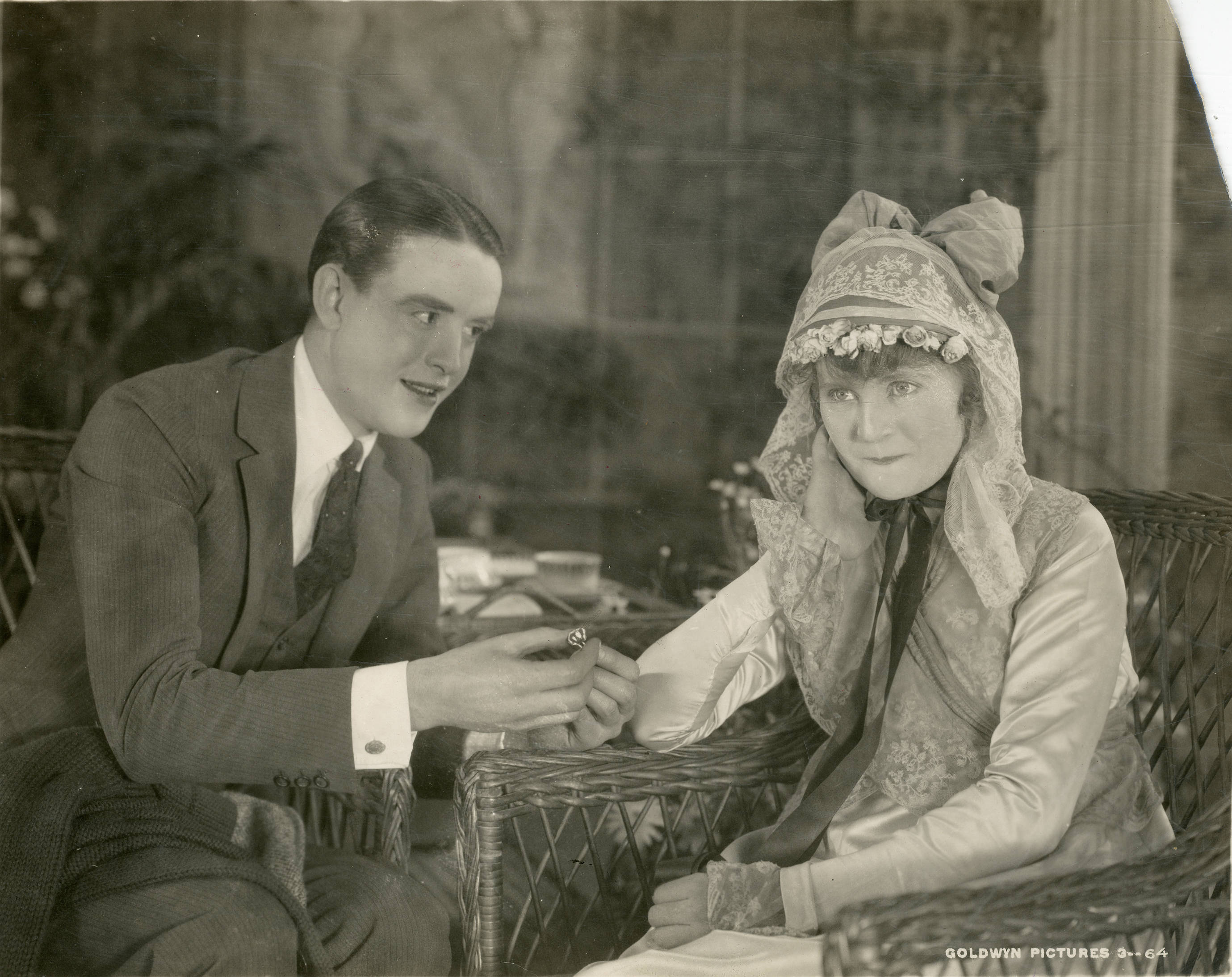 Mae Marsh and Robert Harron in a scene from the American silent film Sunshine Alley (1917). Date stamped Nov. 10, 1917. Subjects: motion pictures, actresses, actors